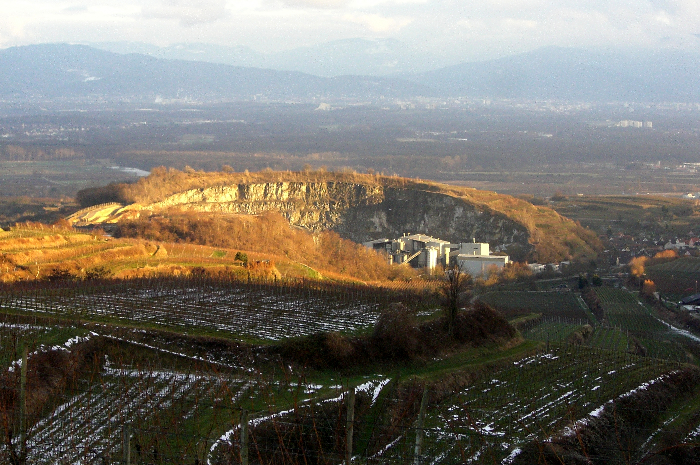 Phonolite quarry, Bötzingen, Kaiserstuhl, Germany